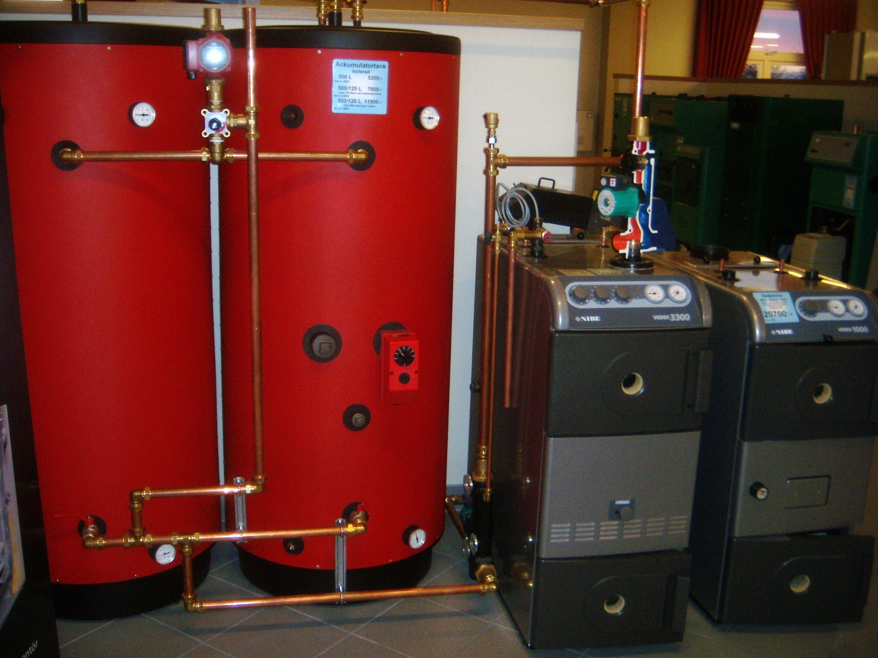 Wood-heating system.